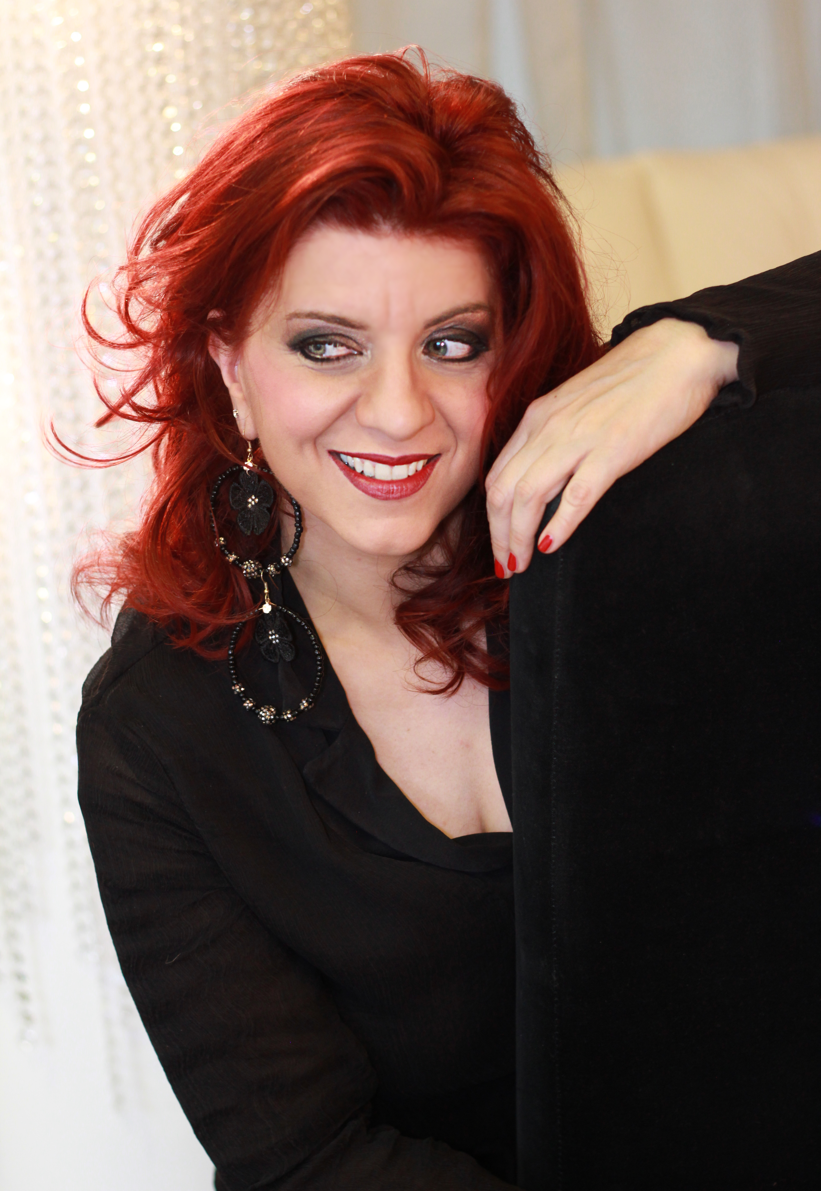 Barbara Cola